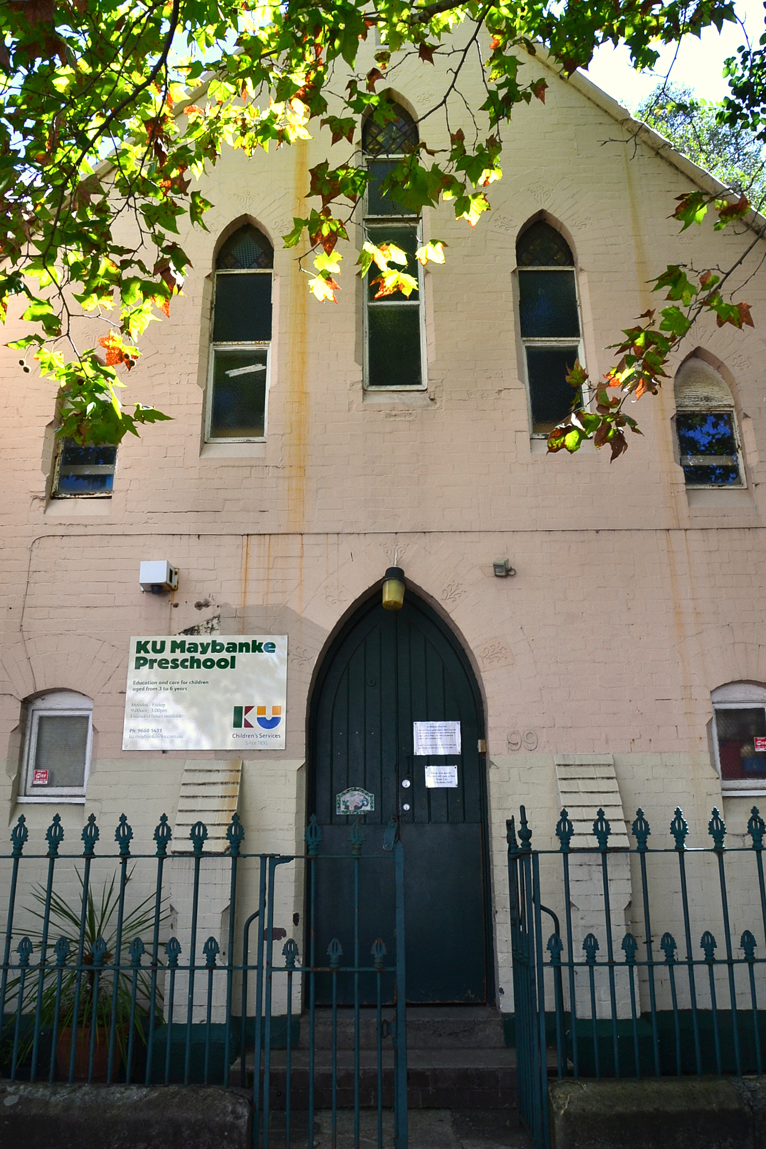 former Methodist chapel, Pyrmont, Sydney